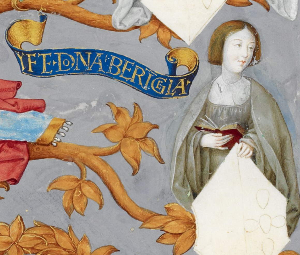 D. Berengaria of Portugal (1196/98-1221), Queen consort of Denmark by her marriage to King Valdemar II.